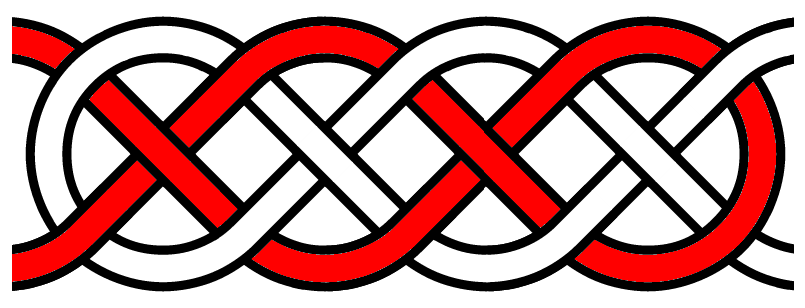 2x5 basket weave knot